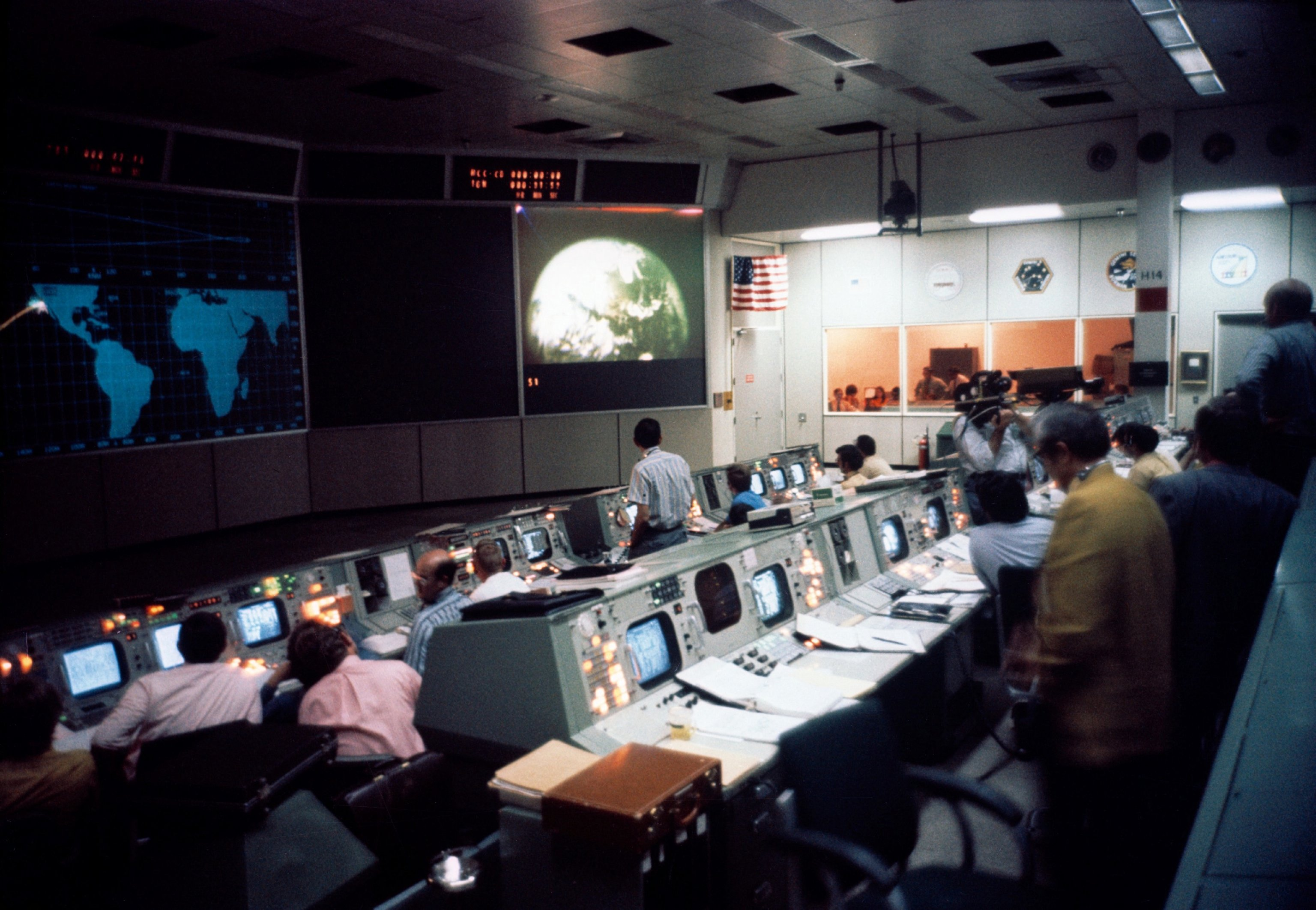 (April 16, 1972) An overall view of activity in the Mission Operations Control Room (MOCR) in the Mission Control Center (MCC) on the first day of the Apollo 16 lunar landing mission. This picture was taken during television coverage transmitted from the Apollo 16 spacecraft on its way to the Moon. The TV monitor in the background shows how the Apollo 16 astronauts viewed the Earth from 7,500 nautical miles away.